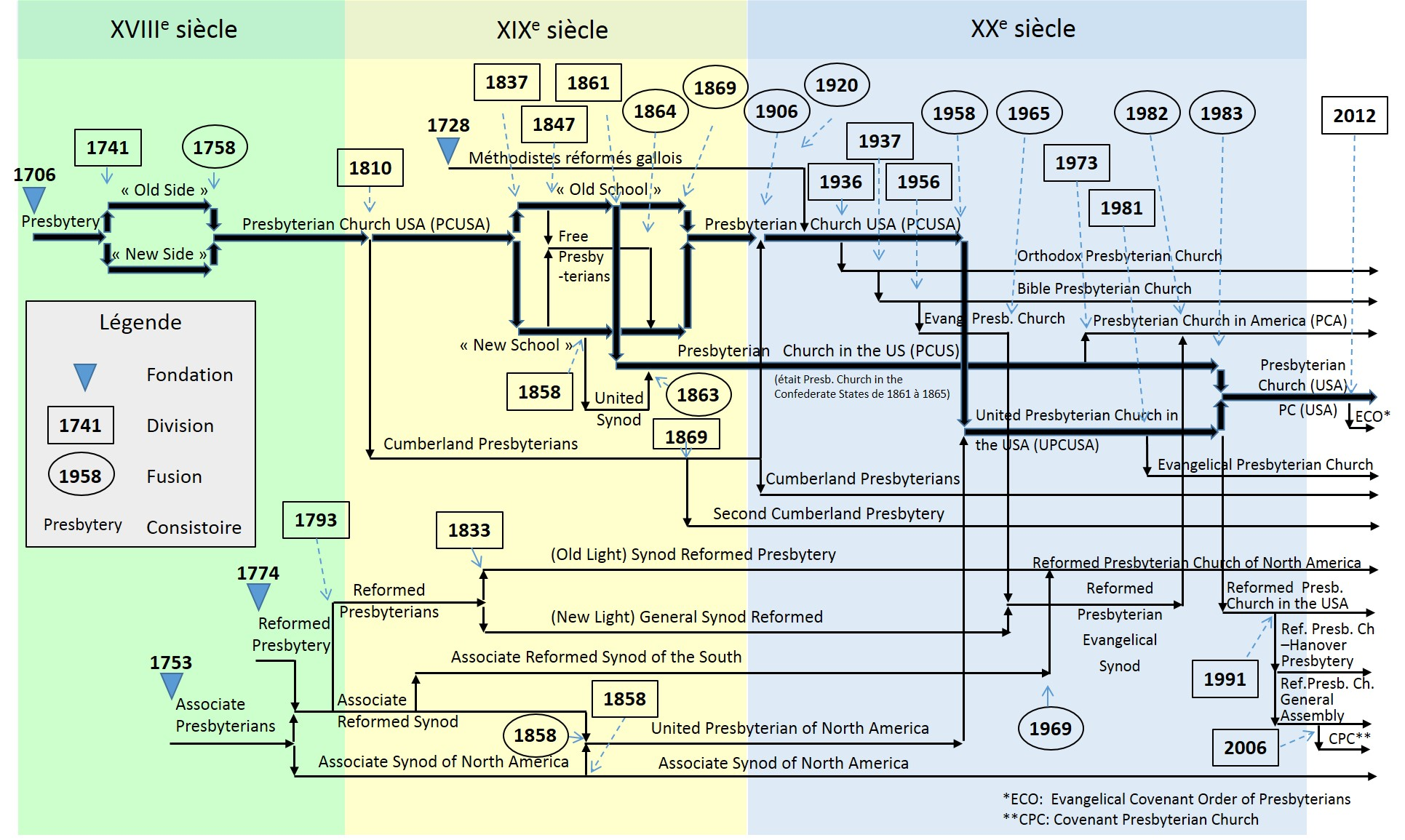 Graph (in French) of the evolution of the different presbyterian denominations in the USA, based on the information shared by the Presbyterian Historical Society, Philadelphia, PA, on 25 August 2005 (File:Presbyterian Family Connections.jpg).